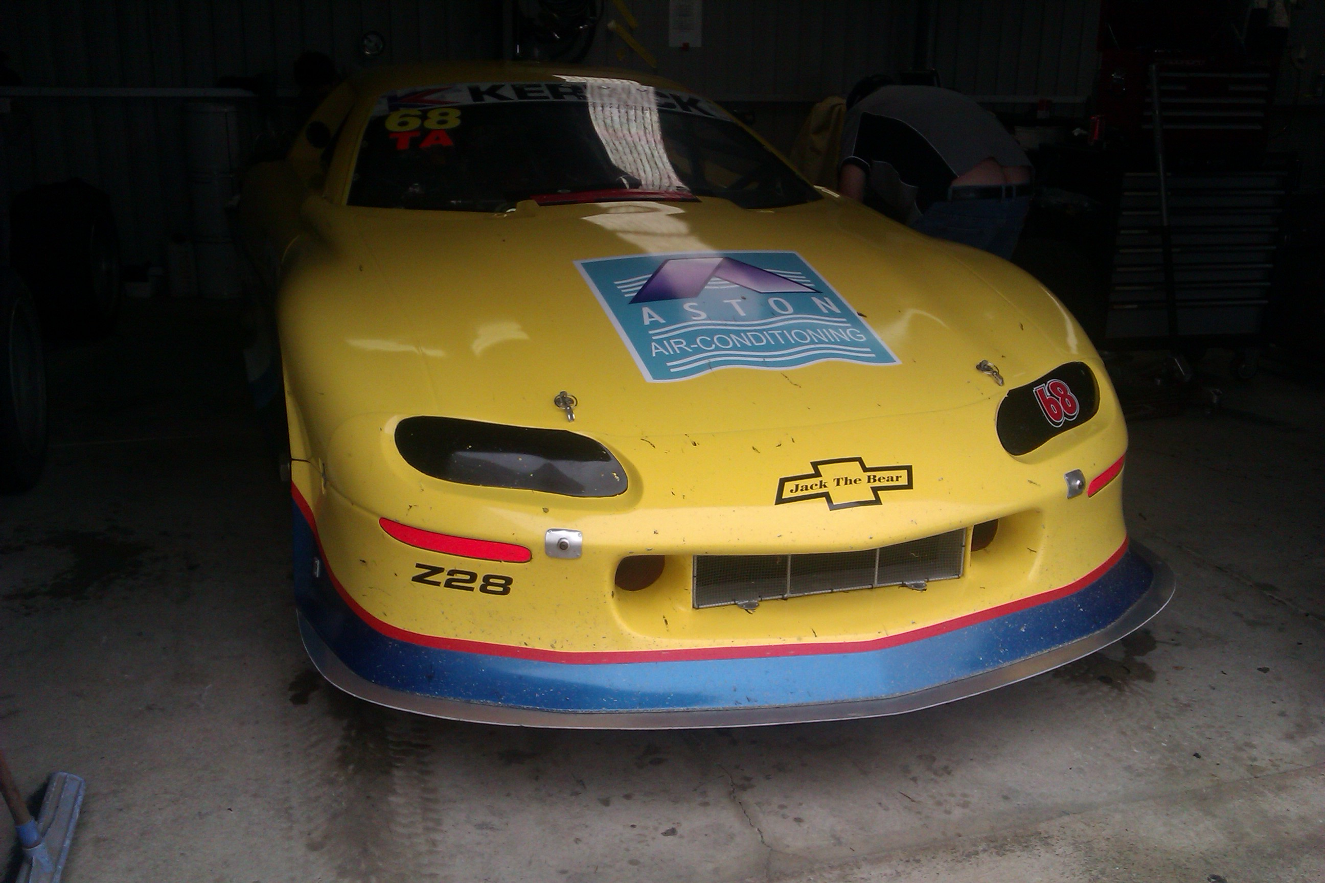 The Chevrolet Camaro of Shane Bradford. The car is shown at Mallala Motor Sport Park where it was competing in Round 2 of the 2013 Kerrick Sports Sedan Series.